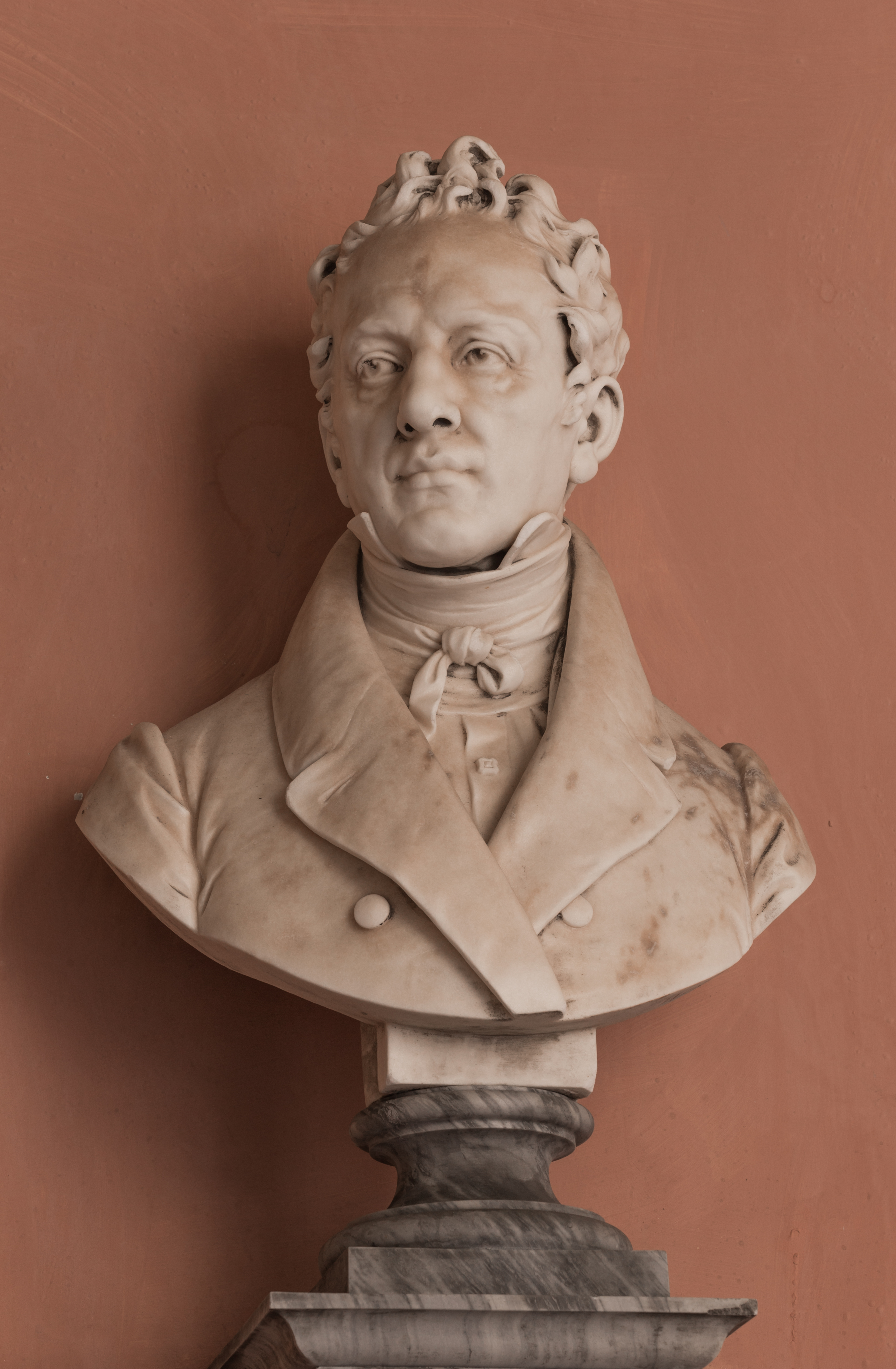 Josef von Kudler (1786-1853), bust(white marble) in the Arkadenhof of the University of Vienna, (Maisel# 7). Artist: Emanuel Pendl (1854-1924), unveiled 1891